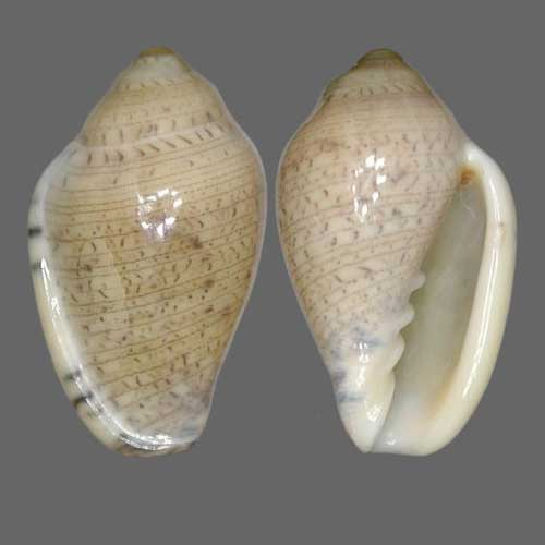 Species: Marginella piperata lutea Sowerby III, 1889 Distribution: Jeffreys Bay to East London data: Algoa Bay, South Africa